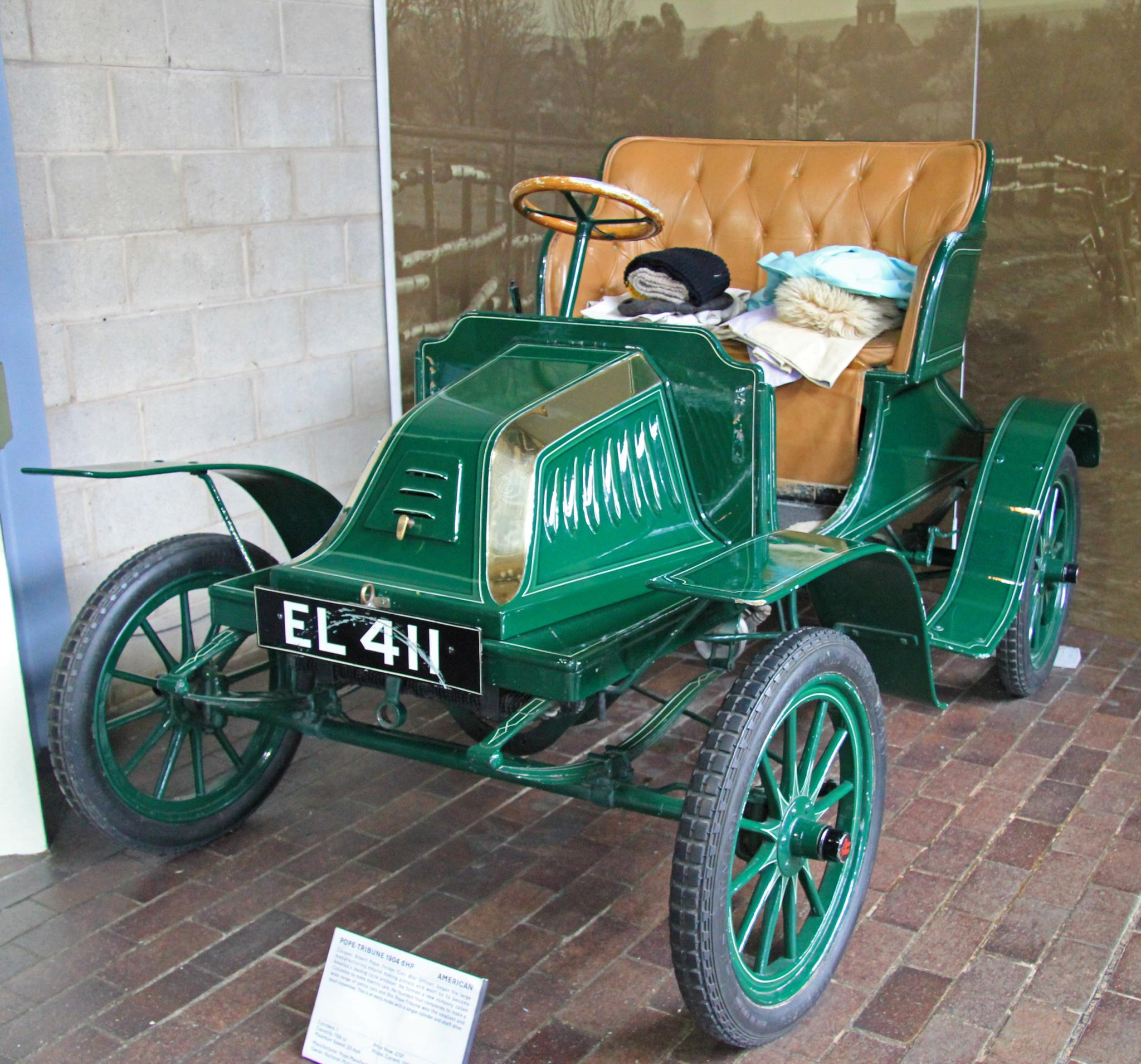 1904 Pope-Tribune 6hp American Colonel Albert Pope, former Civil War Officer, began his large manufacturing empire making pistols and went on to become America's leading cycle producer. He formed a new company called Columbia to make electric cars. He founded four companies to make a wide range of petrol cars and this Pope-Tribune was the smallest and least expensive. This is an early model with a single cylinder and shaft drive. Cylinders: 1 Capacity: 798cc Maximum Speed: 25mph Price New: £131 Model Current: 1904-1907 Manufacturer: Pope Manufacturing Company, Maryland, USA Owner: National Motor Museum Trust Housing a collection of over 250 automobiles and motorcycles telling the story of motoring on the roads of Britain from the dawn of motoring to the present day, the award winning (Winner - The International Historic Motoring Awards of the Year 2012) National Motor Museum appeals to all age groups. From World Land Speed Record Breakers including Campbell’s famous Bluebird to film favourites such as the magical flying car, Chitty Chitty Bang Bang and rare oddities like the giant orange on wheels. Don’t miss exciting extra features such as the Motorsport Gallery, Wheels and Jack Tucker's Garage - A permanent, multi award-winning 1930's garage has been created within the Museum, complete down to the last nut and bolt and rusty drainpipe. Whilst the building is a complete fabrication, everything in it - all the fixtures, fittings, tools and ephemera - are genuine artefacts collected over a period of 25 years.